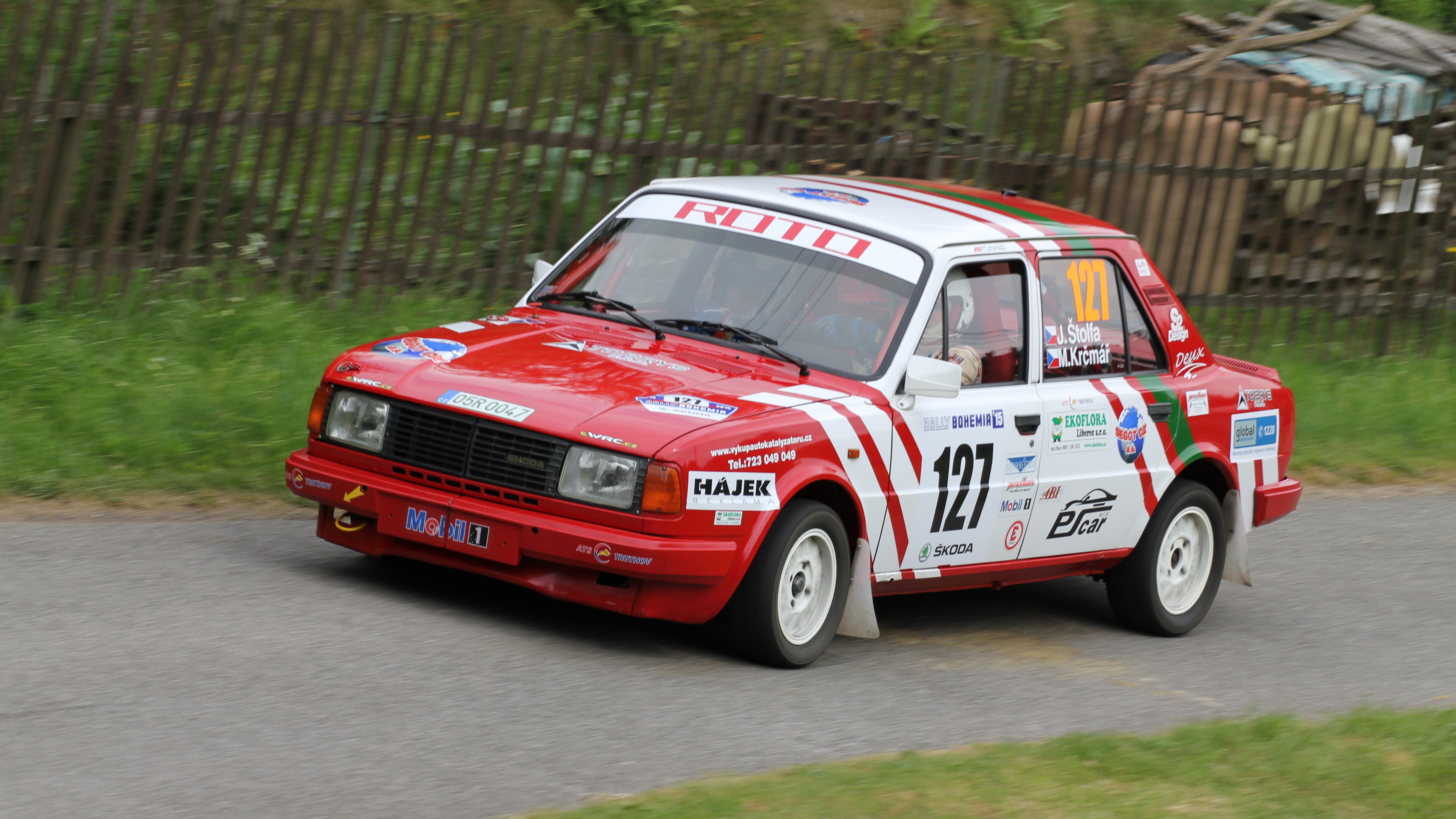 Jindřich Štolfa / Miroslav Krčmář, Škoda 130 L, 2015 Rally Bohemia Historic